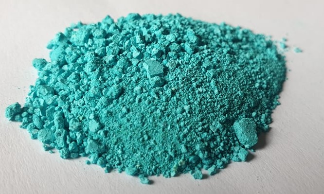 Copper(II) hydroxide